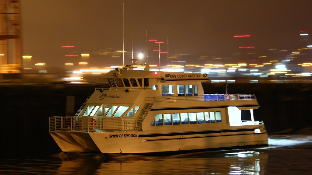 King County Ferry District's MV Spirit of Kingston approaching the Seattle Ferry Terminal at night.